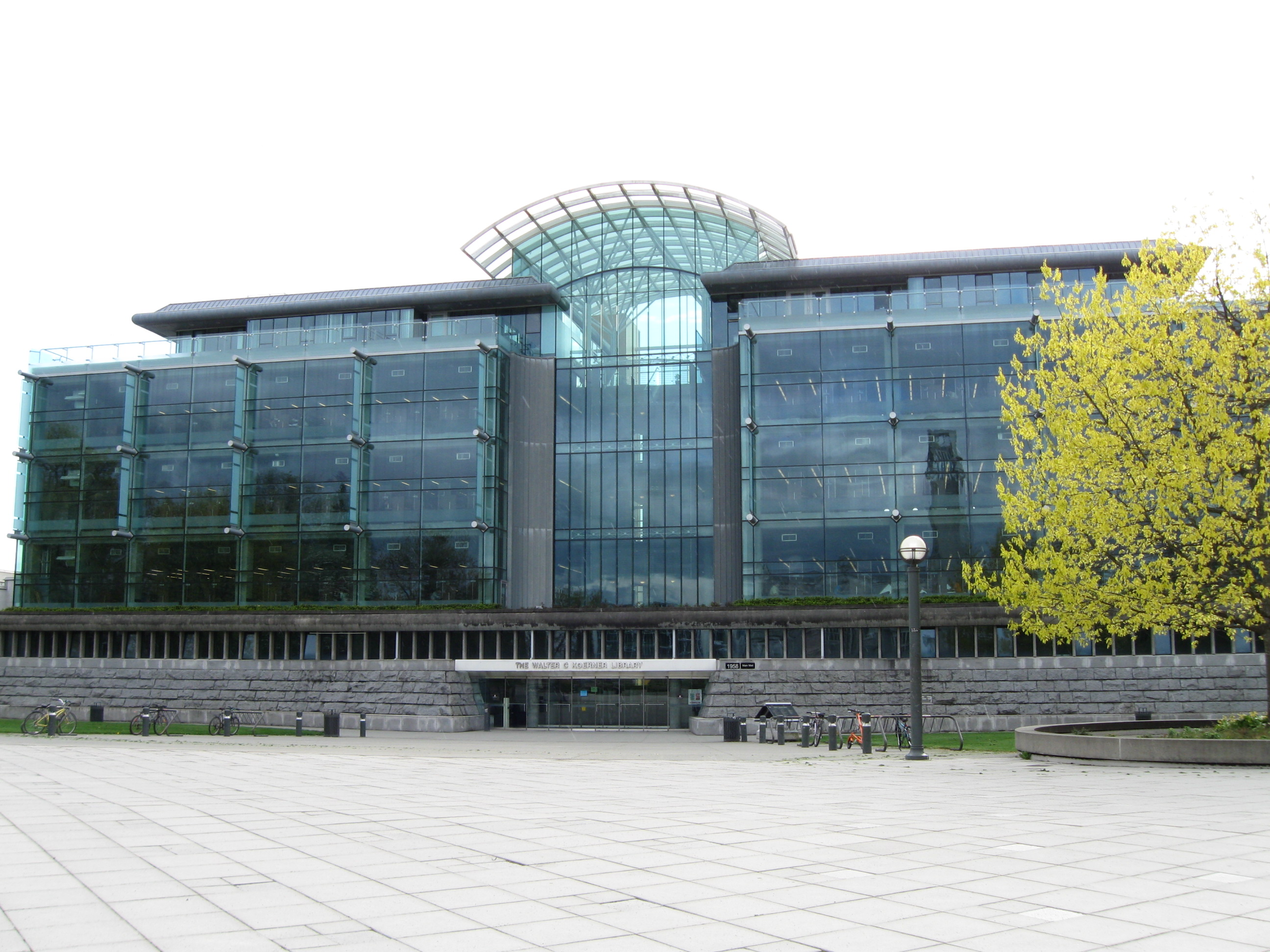 A view of the front of the Walter Koerner Library in the Vancouver, Canada, Point Grey campus of UBC. Note its many glass paned walls which permit natural light to illuminate the upper floors of the library.